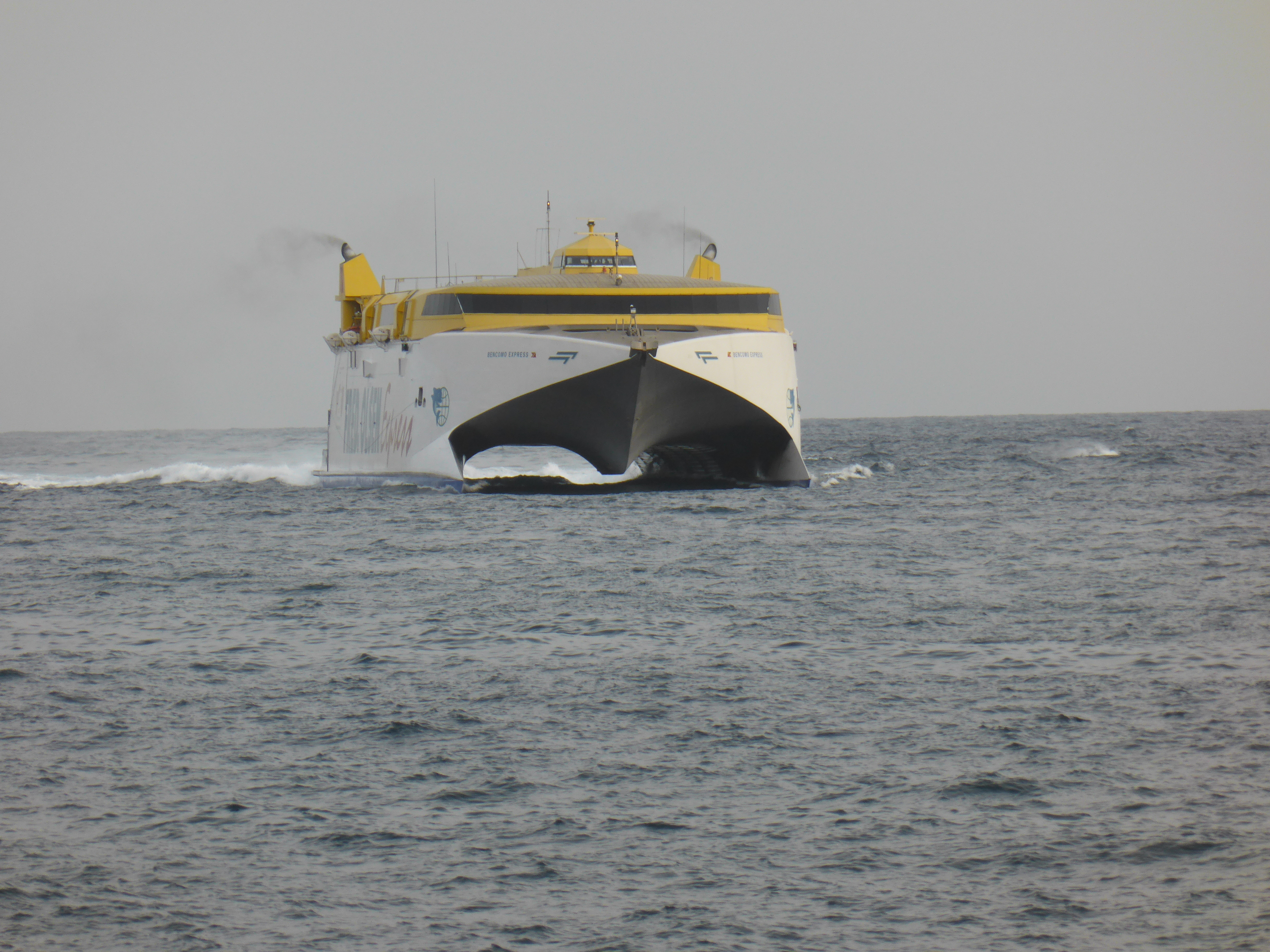 Fast Ferry Wavepiercing Catamaran. High Speed Craft. Type: Passenger/Ro-Ro Cargo Ship. Líneas Fred. Olsen Express, S.A. Operated by the company between Santa Cruz in Tenerife and Agaete in Gran Canaria. Fred. Olsen Express was founded in 1974 as Ferry Gomera, S.A. All name of the company's ships should begin with the letter B. IMO: 9206712